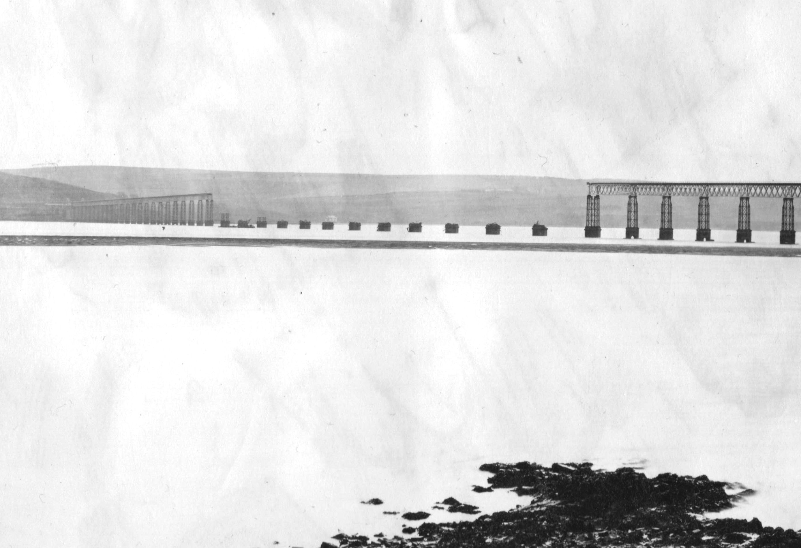 River Tay Bridge, middle section collapsed, photographed by Valentines in 1880